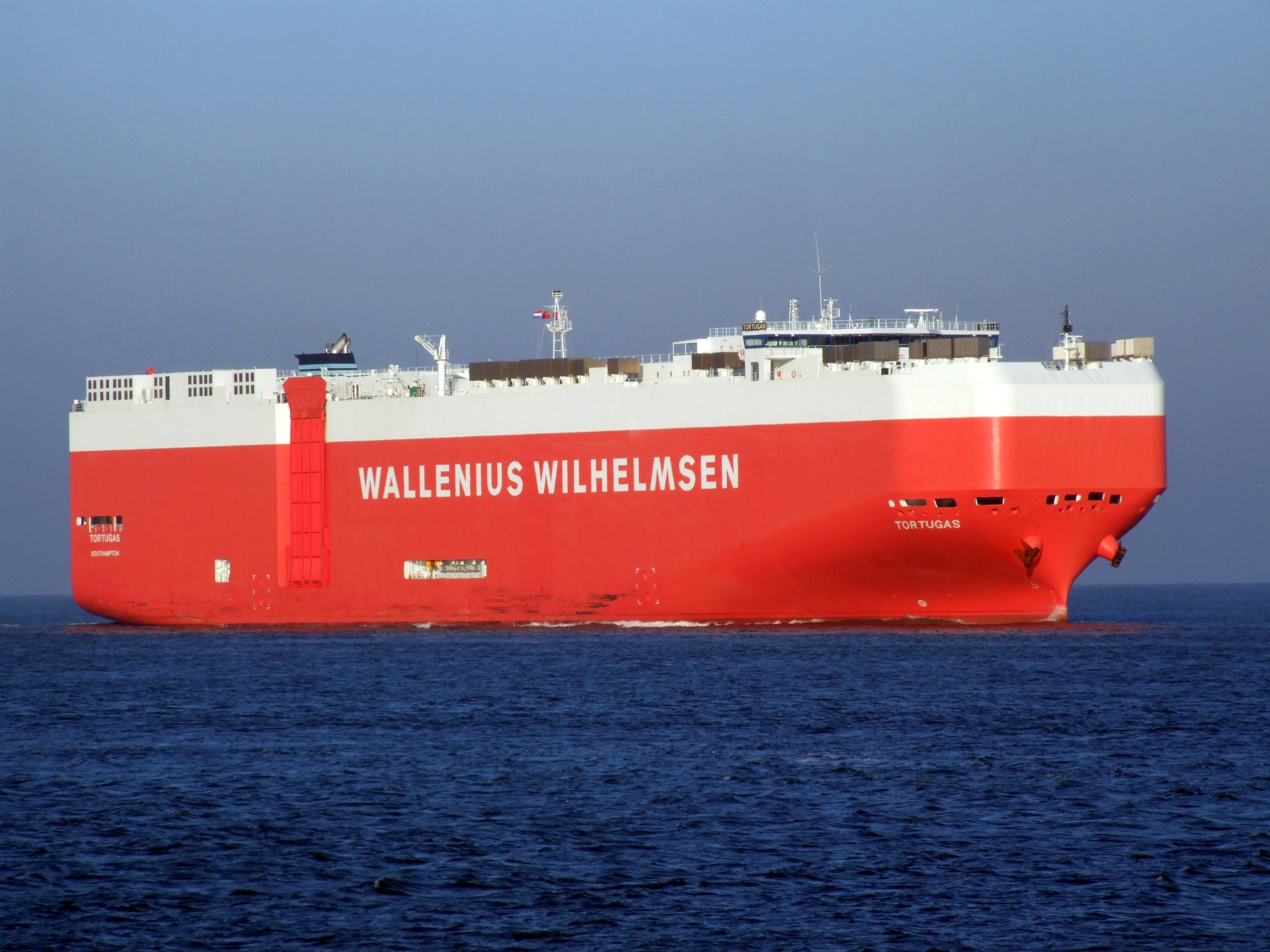 Photographed at the Port of Rotterdam, The Netherlands.